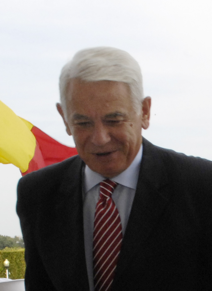 U.S. Secretary of Defense Robert M. Gates escorts Romanian Minister of Defense Teodor Melescanu through an honor cordon into the Pentagon.